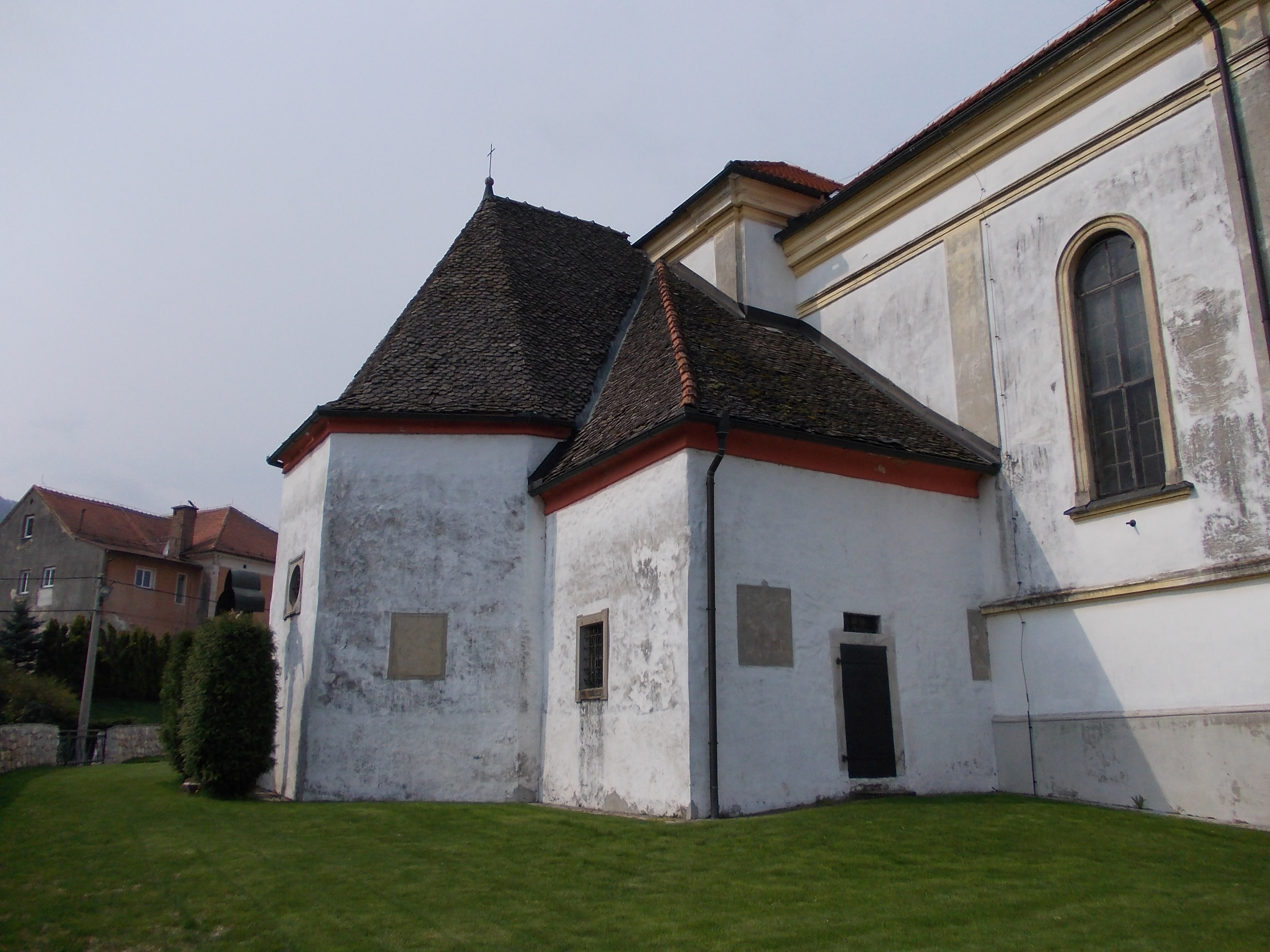 Holy Cross Church, Zgornje Poljčane